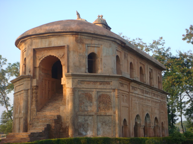 Rangghar, the pavilion of the Ahom kings